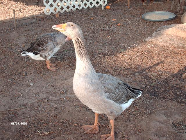 Toulouse Gander with Female Goose behind him.